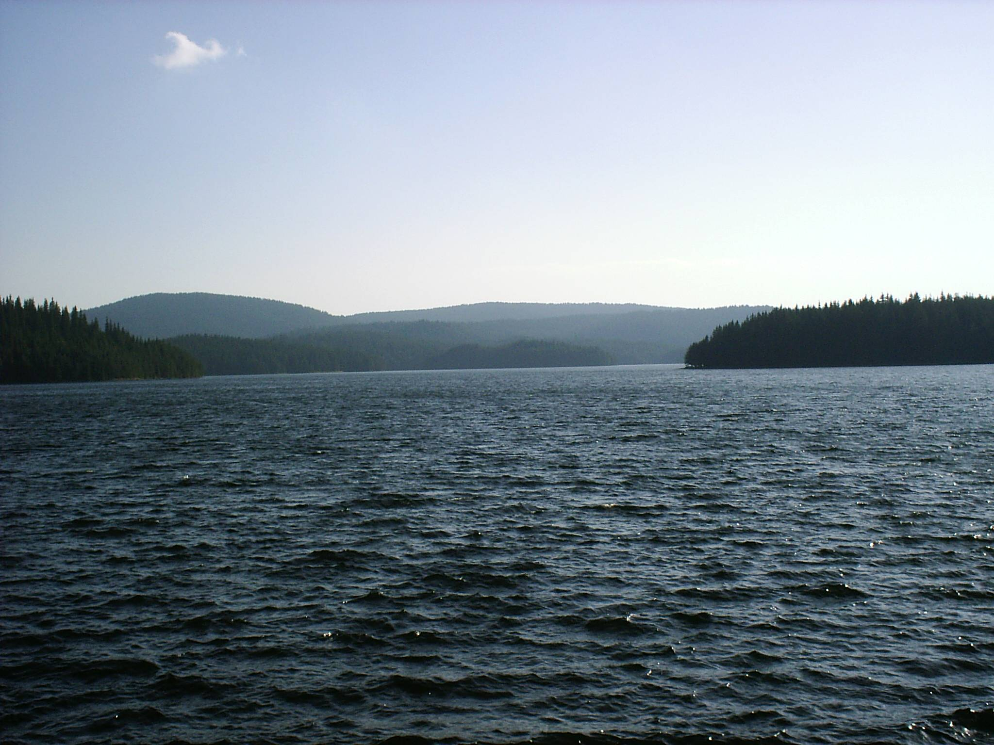 The Golyam Beglik Dam in Bulgaria.